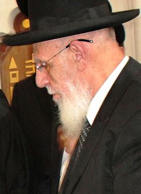 Shalom Cohen (rabbi)